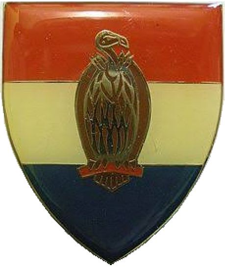 SADF era Lydenburg Commando emblem